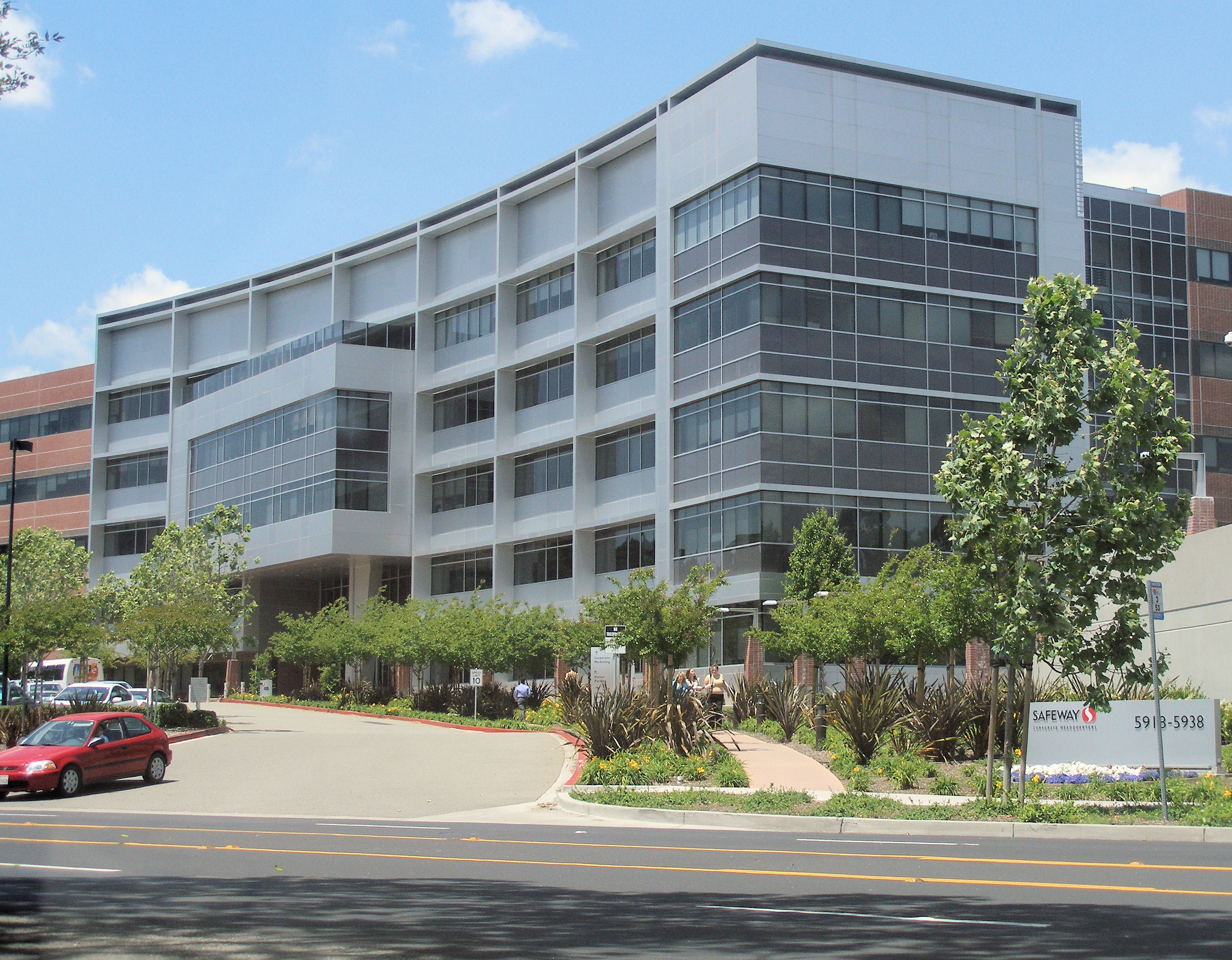 The headquarters of supermarket chain Safeway Inc. in the city of Pleasanton, next to Interstate 580.